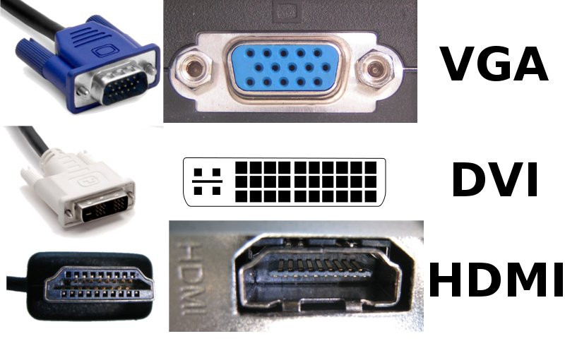 A picture including the types of connections most used to screen.